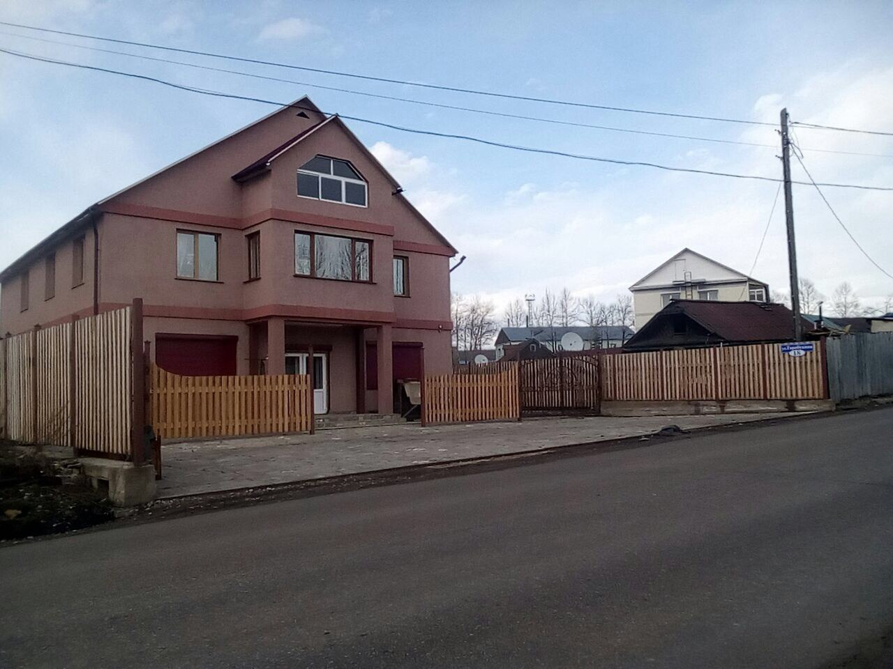 Улица Тарабукина В городе Алдане.